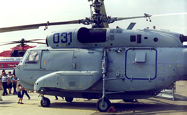 Kamov Ka-31 at MAKS 1997.